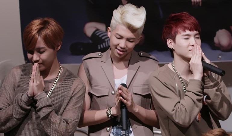 BTS at a fansigning in Jongro, 7 September 2014